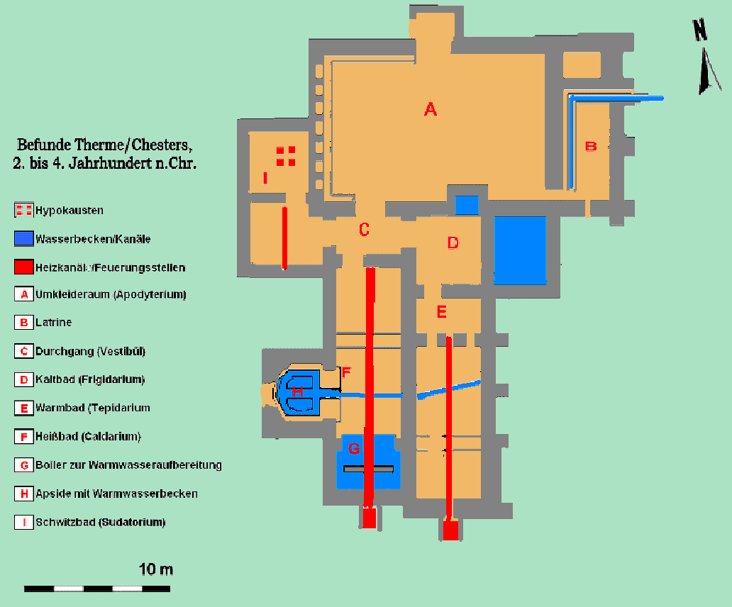 Plan of the Roman bath house in Chester / Cilurnum.